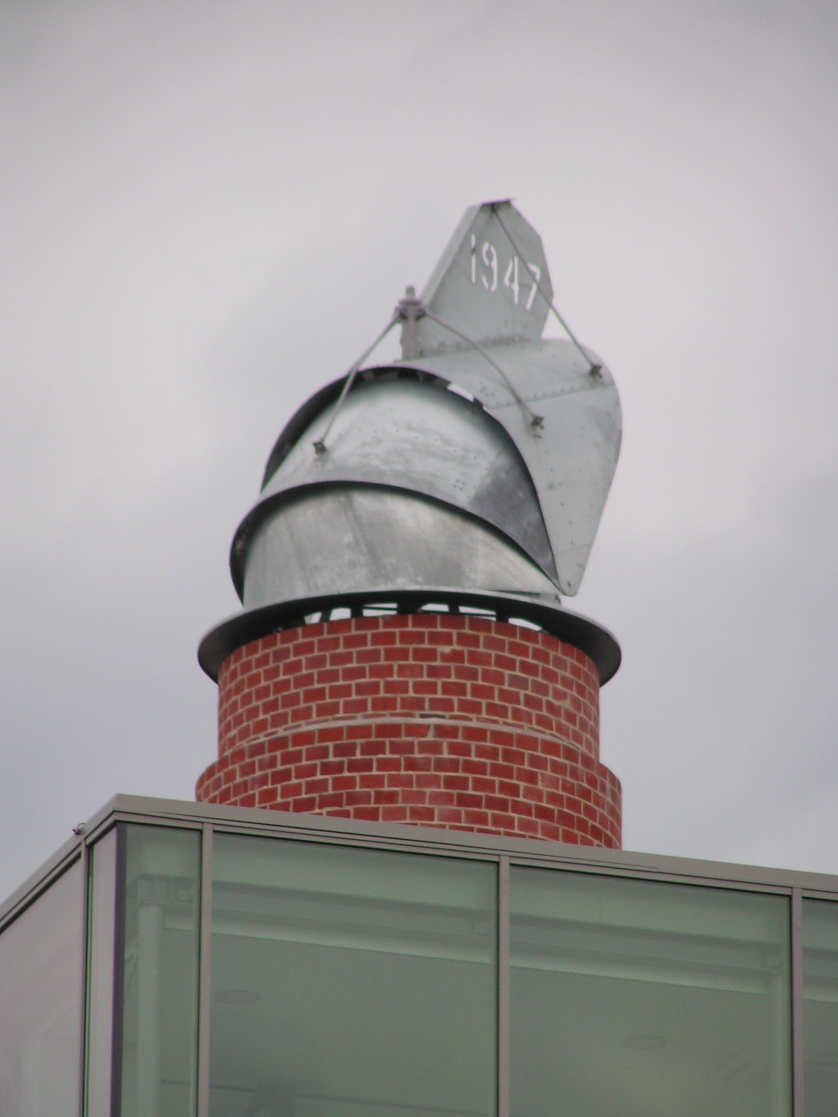 Wind directional cowl on the Malt factory in Roermond, the Netherlands.